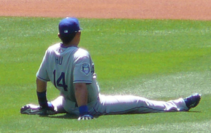 Chin-Lung Hu, a Major League Baseball player in America